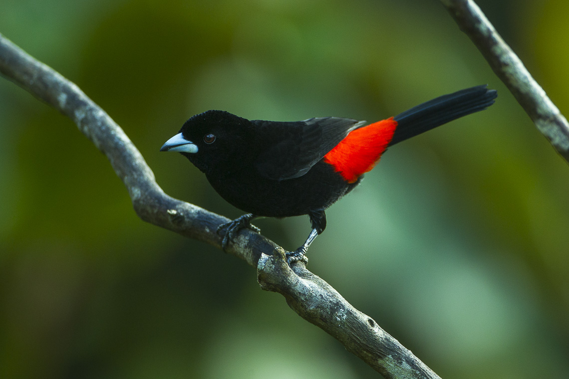 Flame-rumped Tanager - Colombia_S4E8786